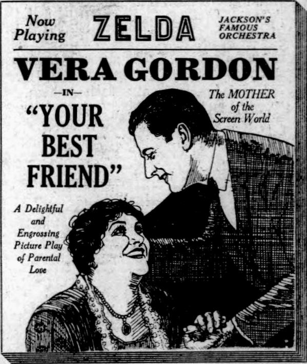 Newspaper advertisement for the American drama film Your Best Friend (1922) with Vera Gordon, on page 7 of the July 8, 1922 Duluth Herald.